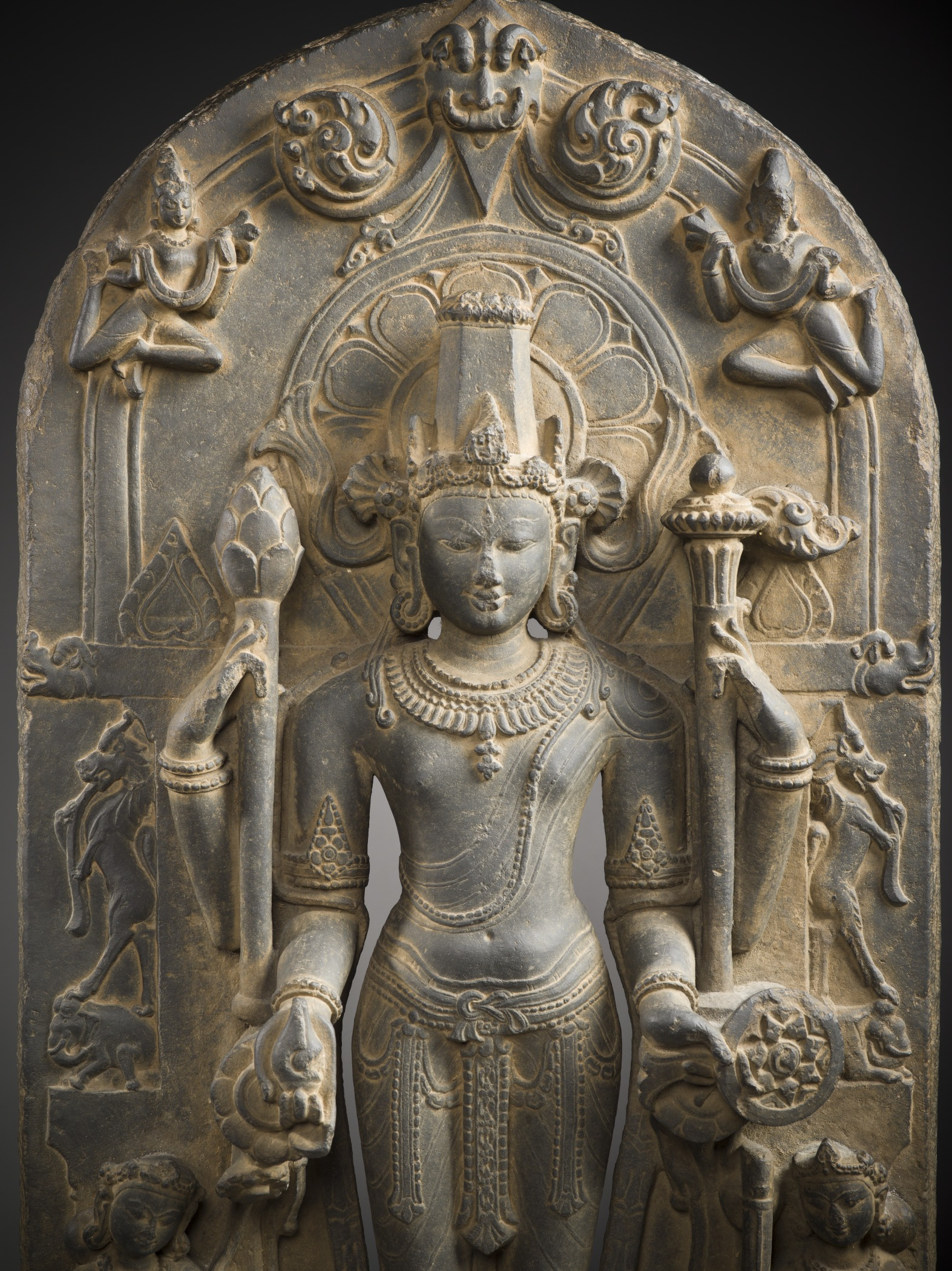 Bangladesh, circa 1000 Sculpture Schist 44 x 18 x 6 in. (111.76 x 45.72 x 15.24 cm) Anonymous gift in honor of the museum's twenty-fifth anniversary (M.91.294.1) South and Southeast Asian Art